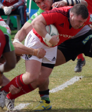 Munster rugby player ,David Kilcoyne, on a charge.